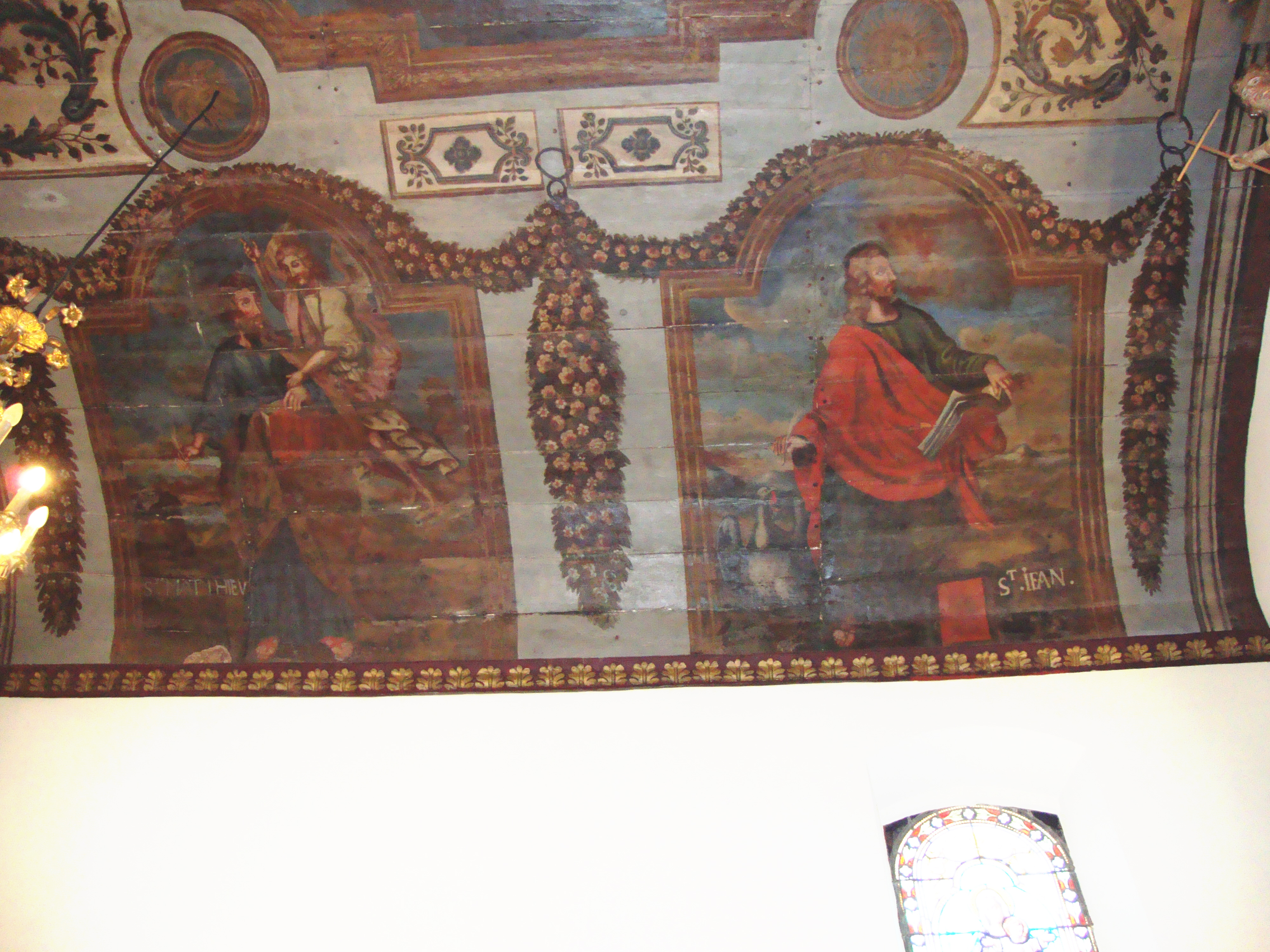 Jatxou (Pyr-Atl., Fr) Church St.Sébastien Wall painting St.Mathieu, St.Jean.jpg